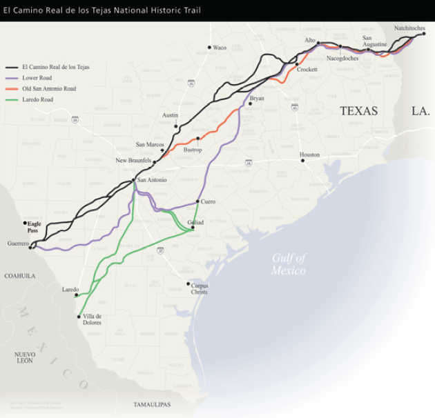 Map of the El Camino Real de los Tejas National Historic Trail. Historic routes of the Spanish colonial El Camino Real de los Tejas, the portion in the United States is a National Historic Trail.